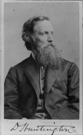 Daniel Huntington, artist